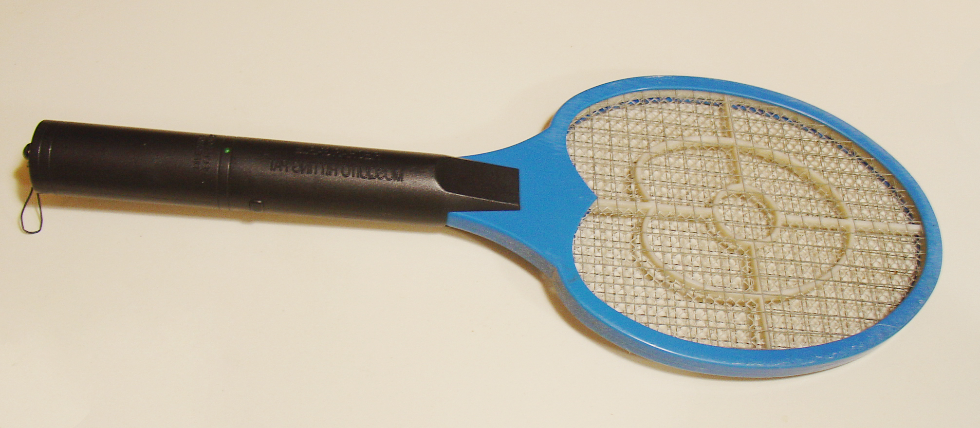 Electric fly swatter